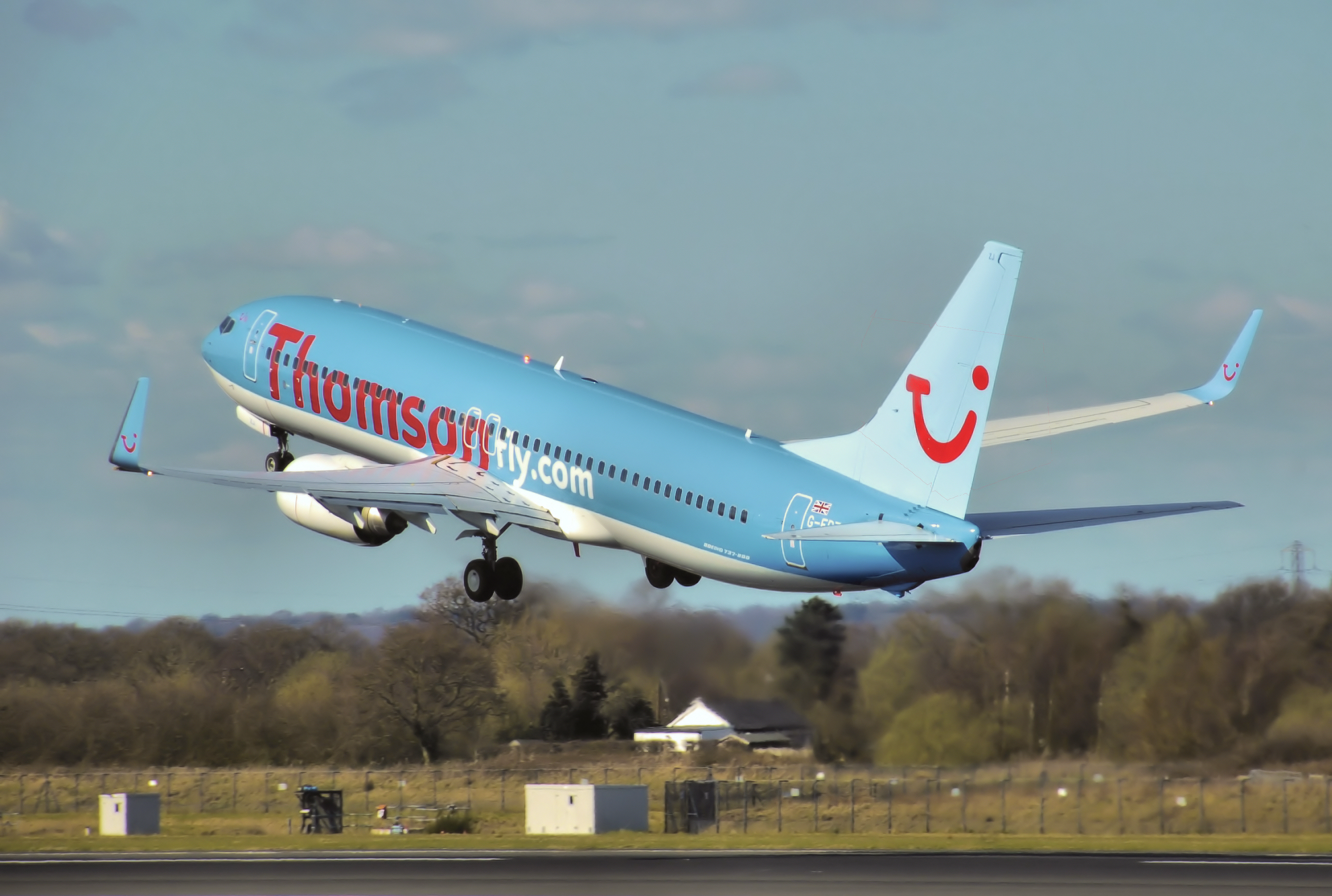 Thomson Airways Boeing 737-800 (G-FDZJ) takes off from Manchester Airport, England. Note: at the time of this photograph Thomsonfly and First Choice Airways had merged into a single new airline called Thomson Airways but the new livery was not in use so this aircraft is still in Thomsonfly colours. The new livery will be identical to the one in this photograph except for the removal of the white " ".